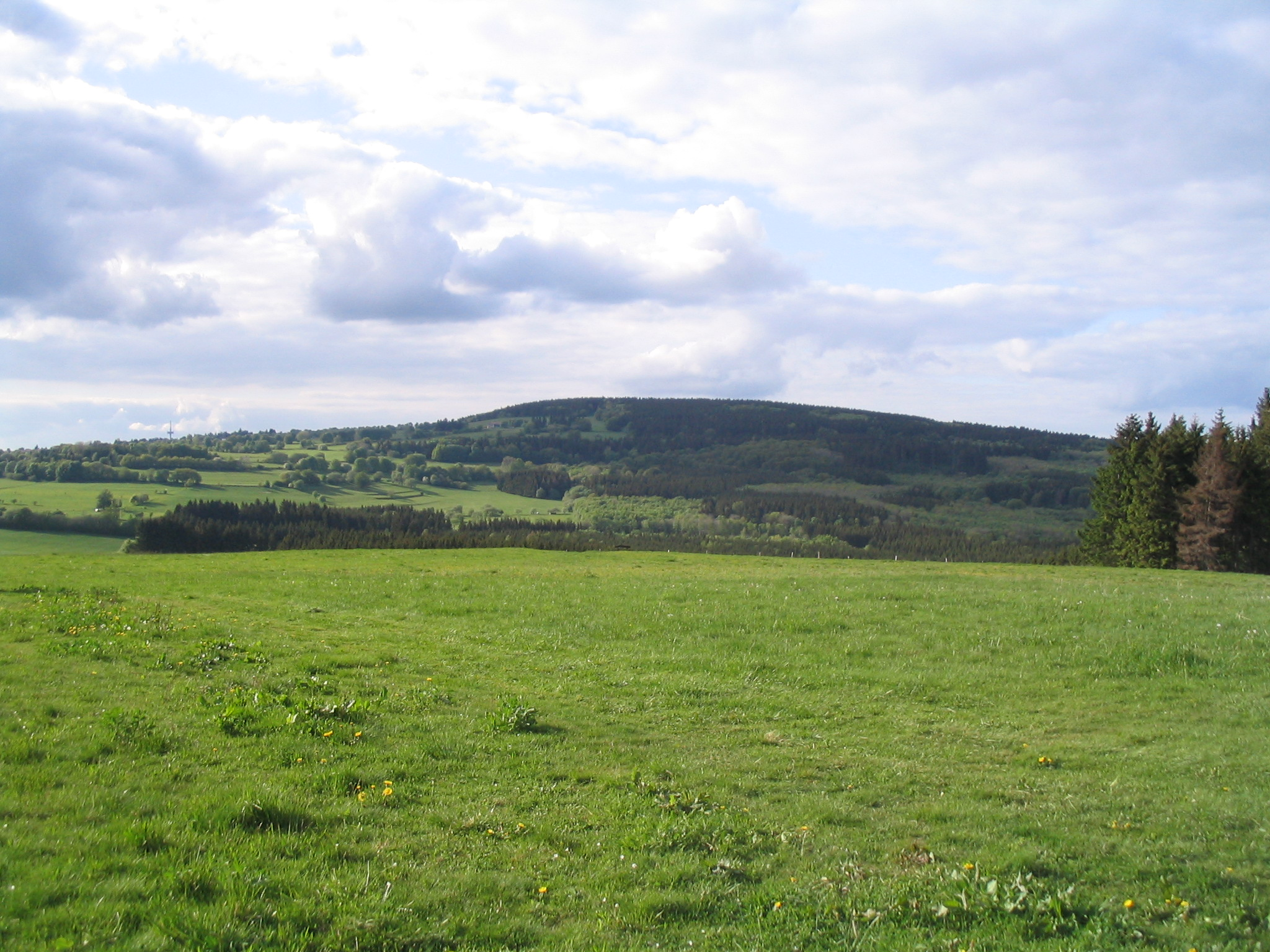 Herchenhainer Hoehe (733 m) in the Vogelsberg-Mountains in Hesse, Germany